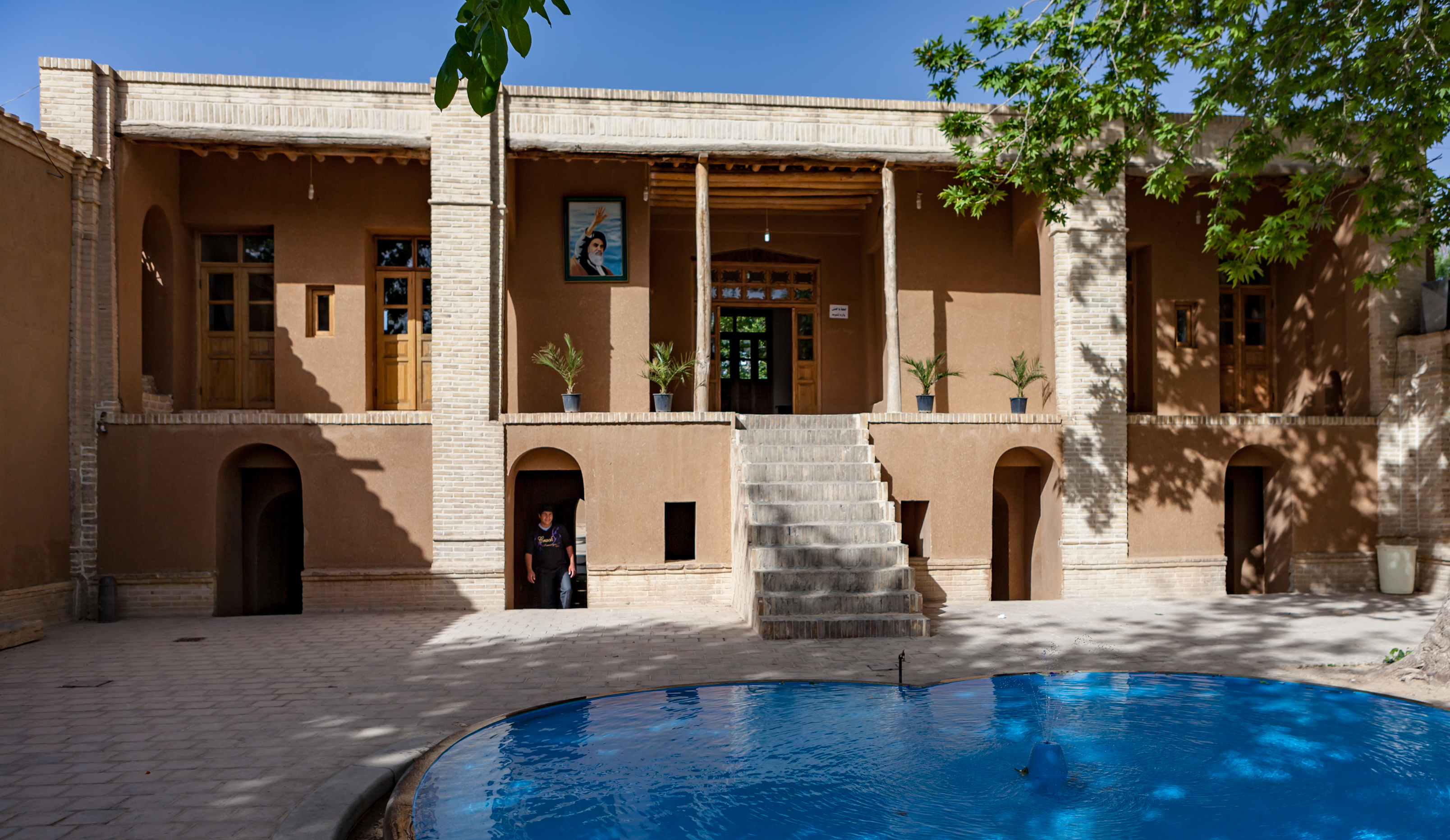 Ayatollah Ruhollah Khomeini's birthplace in Khomein, Iran